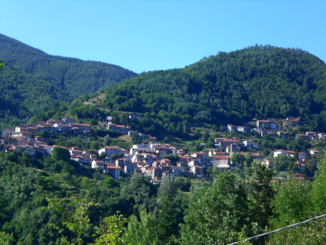 Sightseen of Popiglio